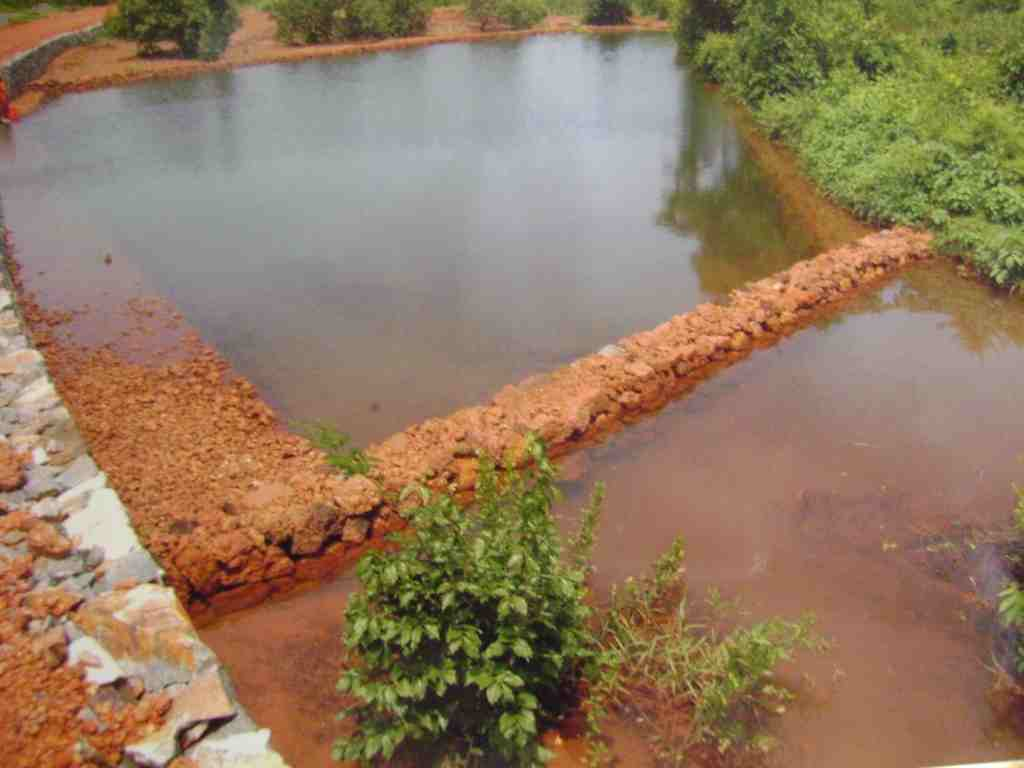 author = Rajankila